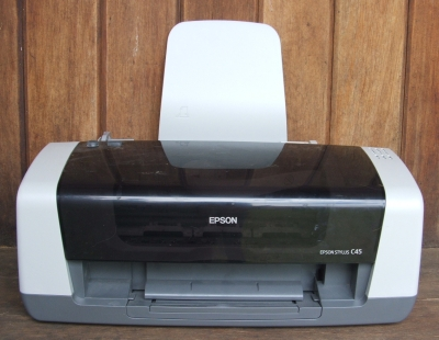 An Epson C45 Inkjet Printer.